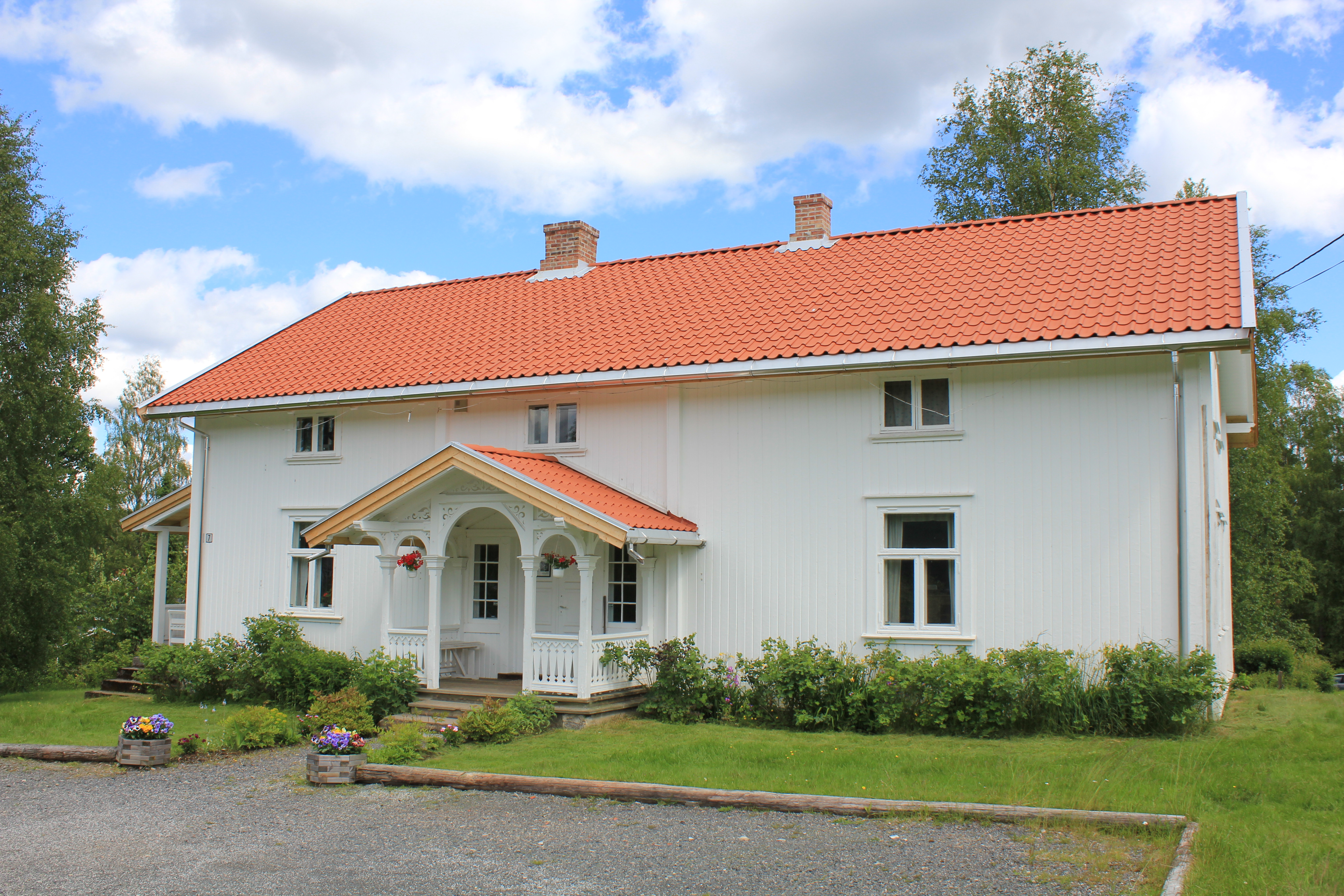 The birth and childhood home of the Norwegian author Sigurd Hoel, in Nord-Odal, Hedmark. He was born here in 1890.